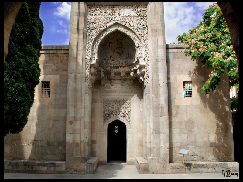 Shah Turbesi